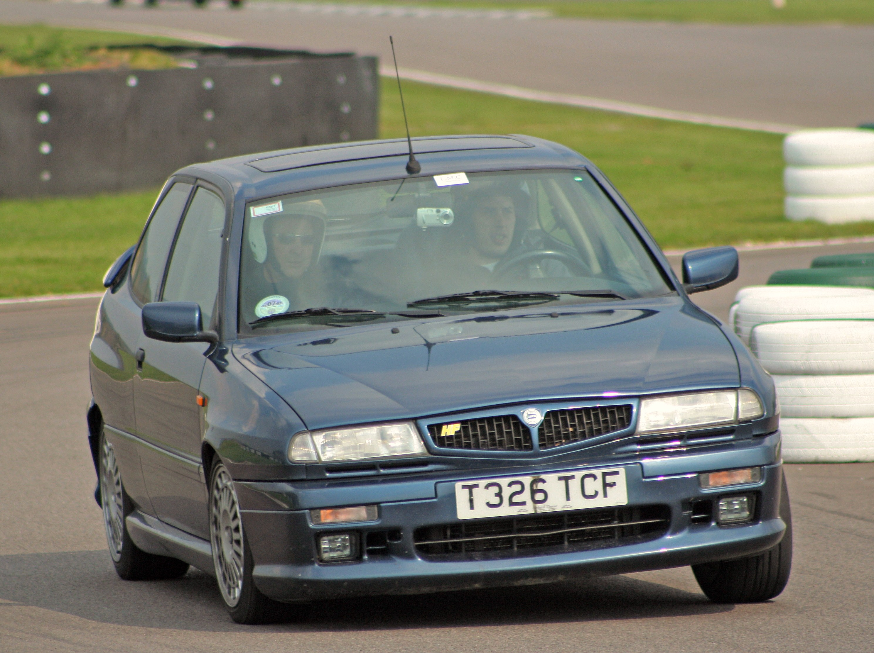 Lancia Delta MK2